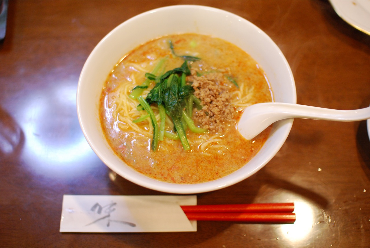 Original text on Flickr: Chinese food restaurant SAIMENDO 04d.JPG SAIMENDO 祭麺堂 Spicy Chinese Noodle with sesames sauce 担々麺 Chinese food restaurant in Kasukabe, Saitama, Japan Comment: This appears to a Japanese interpretation of dandanmian as Japanese ramen (tantanmen), and not Chinese food at all.